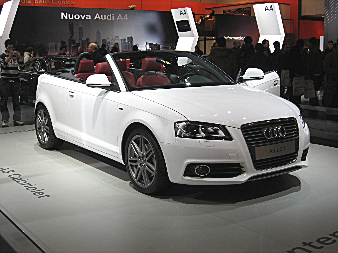 Subject:Audi A3 Mk2 Cabriolet Author:Luc106 Date:December 13th, 2007 Event:Motor Show Bologna 2007 Place/Country: Bologna, Italy I release all rights in the public domain.